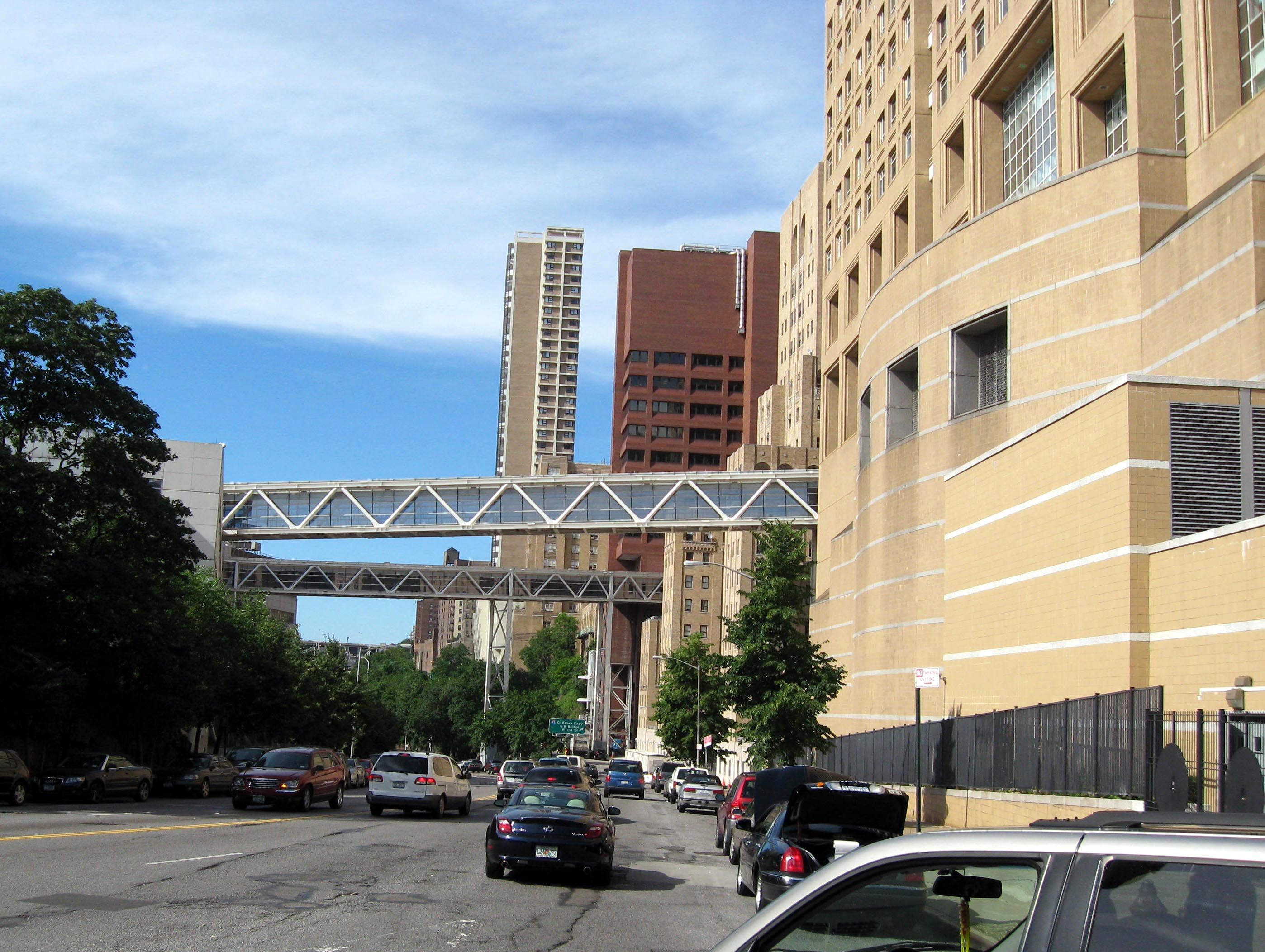 Looking north from 155th Street at skyways across Riverside Drive connecting New York State Psychiatric Institute with rest of Columbia University Medical Center on a sunny afternoon. Replaced for the Institute article by File:NYS Psy Inst Haven Av jeh.jpg Sept 2010.